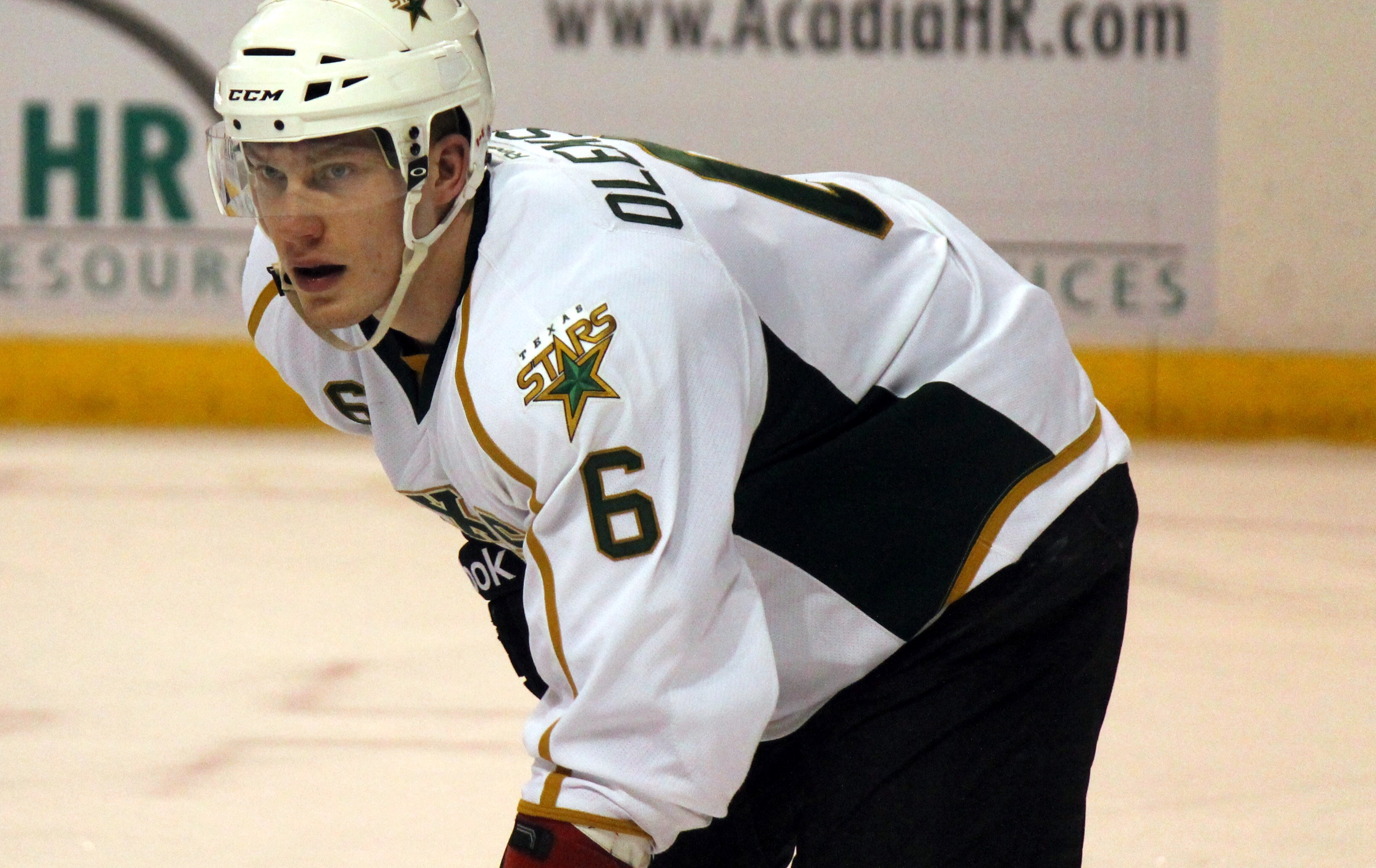 Jamie Oleksiak of the Texas Stars